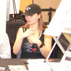 Dawn Best at Pittsburgh Comicon